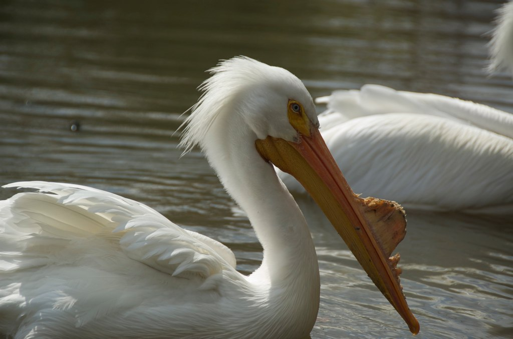 An American White Pelican (also known as the Rough-billed Pelican) at Tulsa Zoo, Oklahoma, USA.